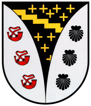 Coat of arms of Walhausen